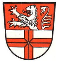 Wappen Rübenach